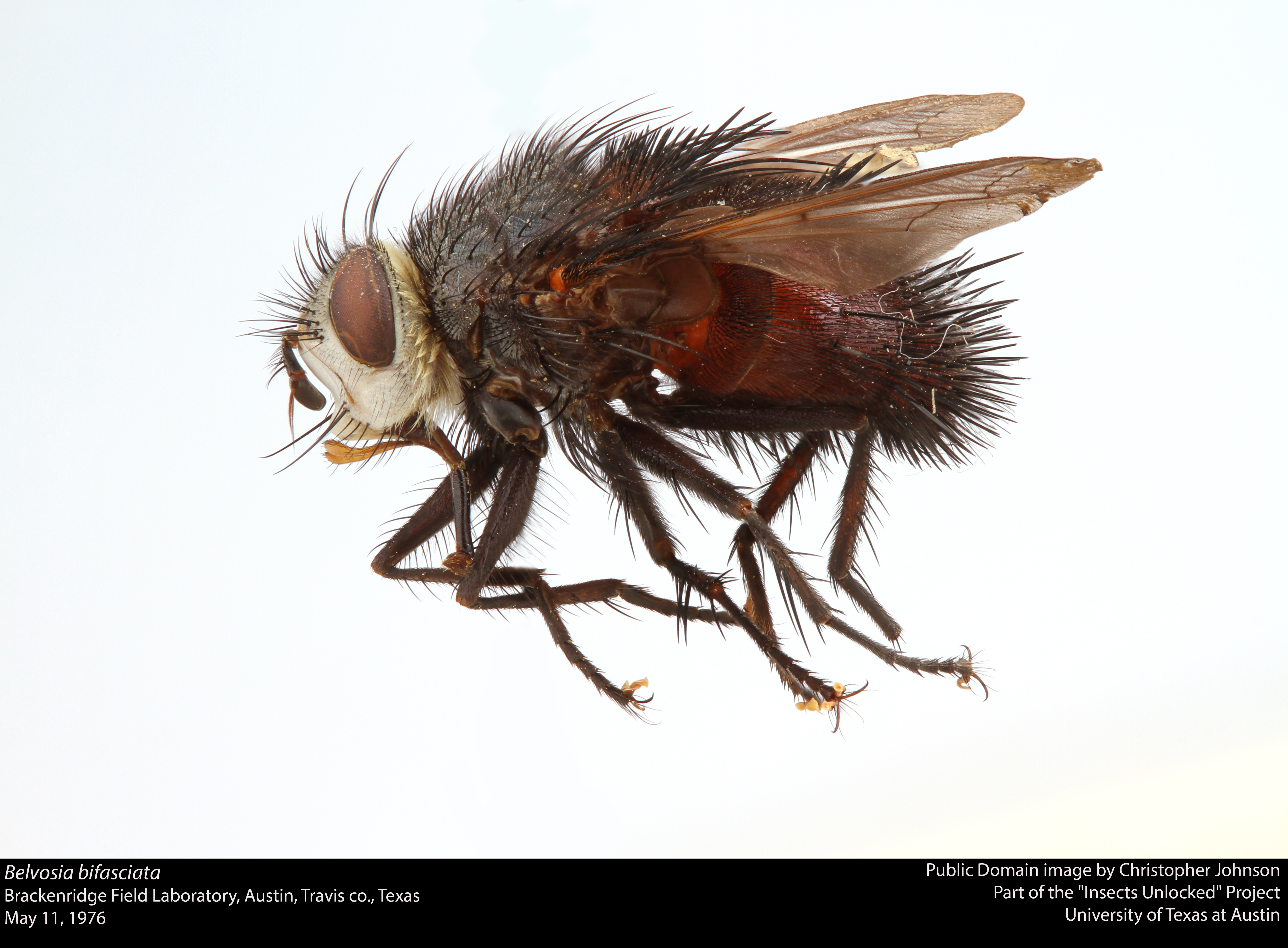 Belvosia bifasciata Brackenridge Field Laboratory, Austin, Travis co., Texas May 11, 1976 Public Domain image by Christopher Johnson Part of the "Insects Unlocked" Project University of Texas at Austin